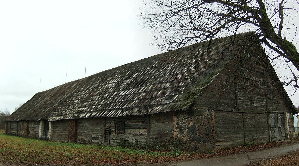 Baltosios Vokės (?) manor barn